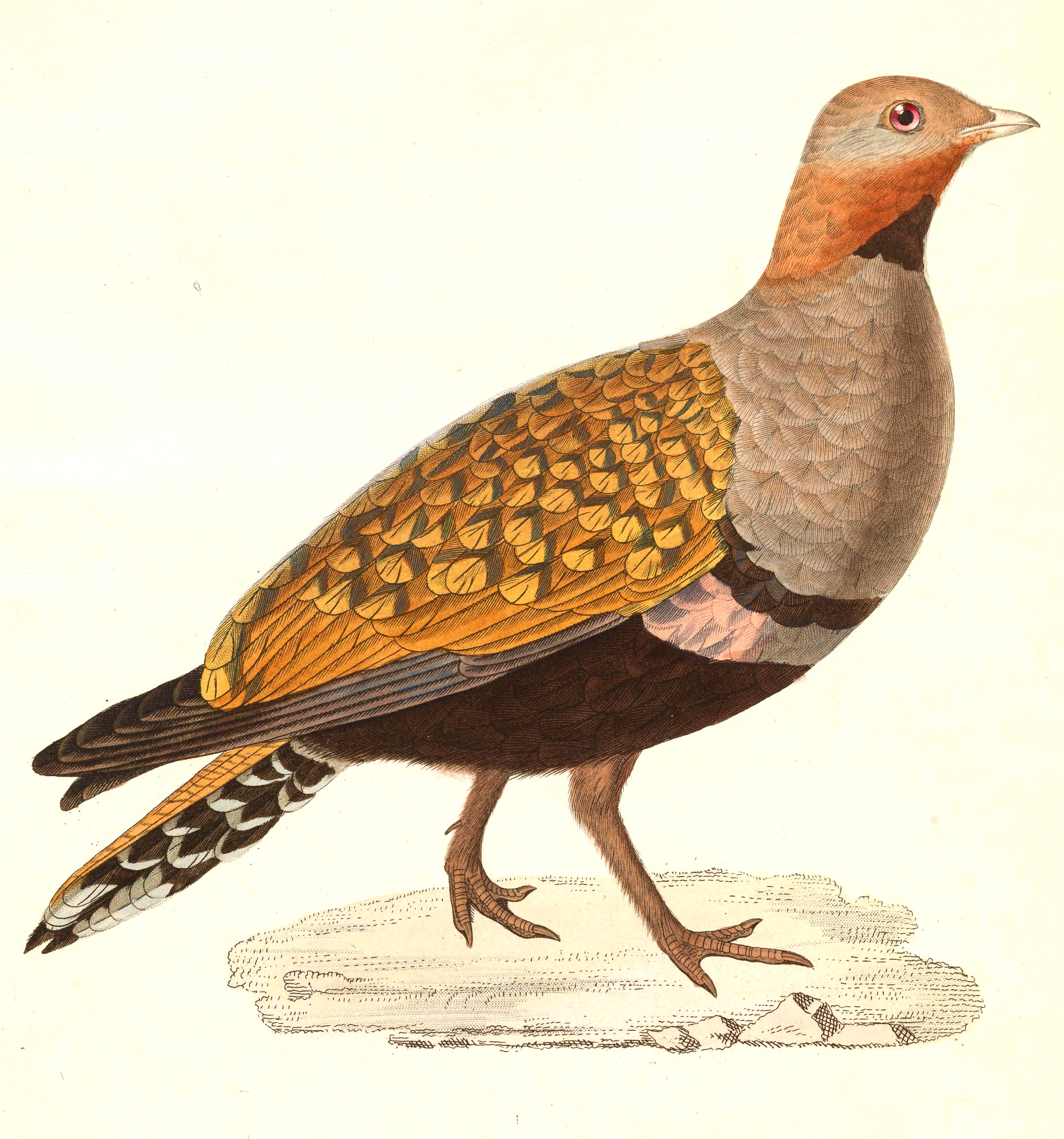 « Pterocles arenarius » = Pterocles orientalis (Black-bellied Sandgrouse) - adult male